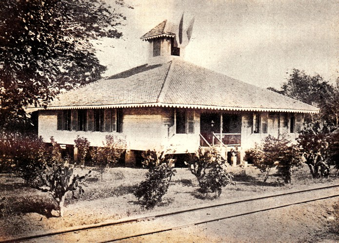 Kerkje te Kota Radja